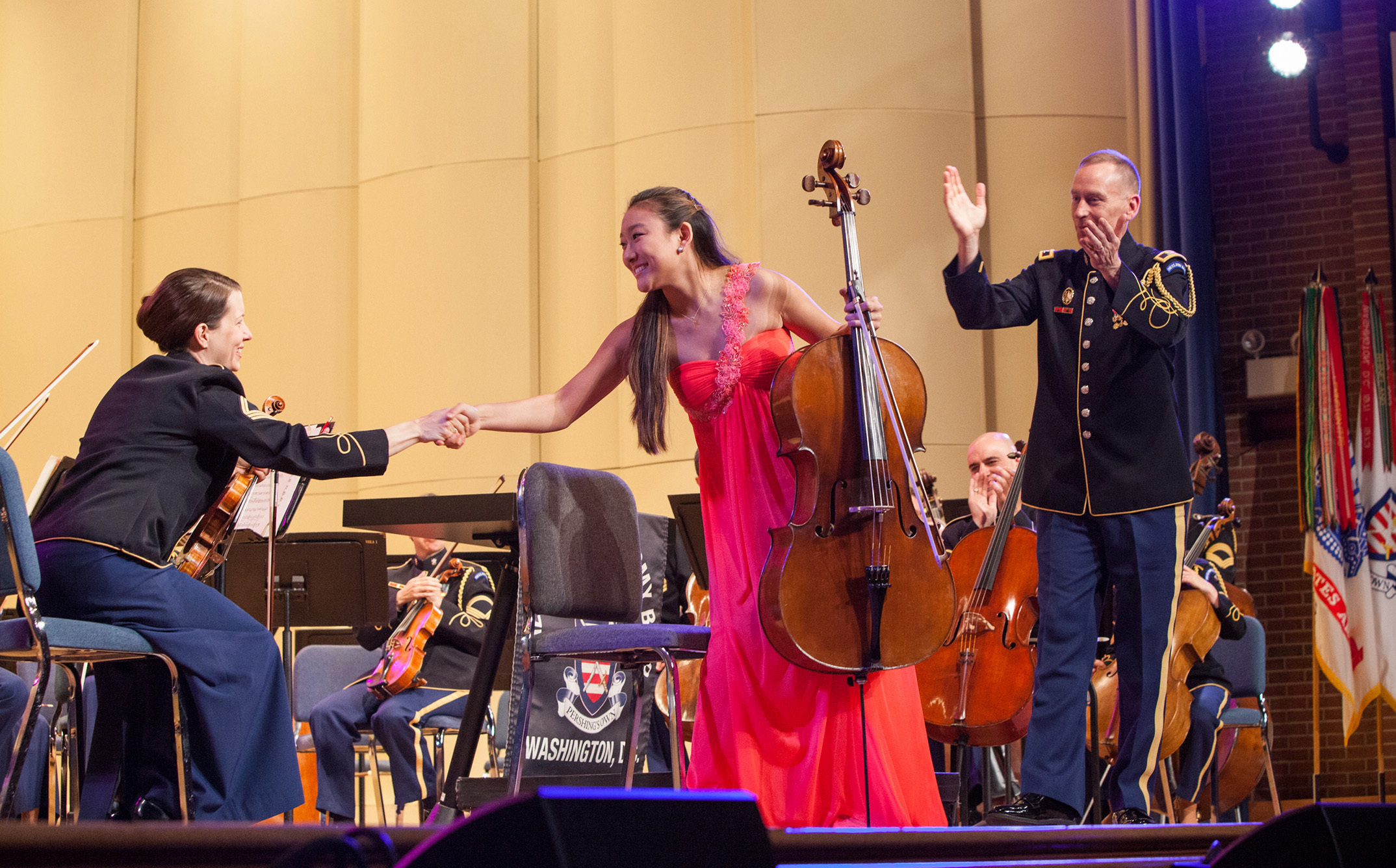 Allison Park, 16-year-old cellist from George C. Marshall High School, shakes hands with Sgt. 1st Class Krista Smith, concert master, The U.S. Army Orchestra, after performing with the orchestra in Brucker Hall on the Fort Myer portion of Joint Base Myer-Henderson Hall March 9. Col. Timothy S. Holtan, TUSAB commander, right, directed the concert. Park won first place in the orchestra’s 10th Annual Young Artist Competition in March. Parks and the orchestra performed Camille Saint-Saens’ 143-year-old concerto before being joined on stage by the competition’s finalists and honorable mention students for the evening’s final two musical selections.